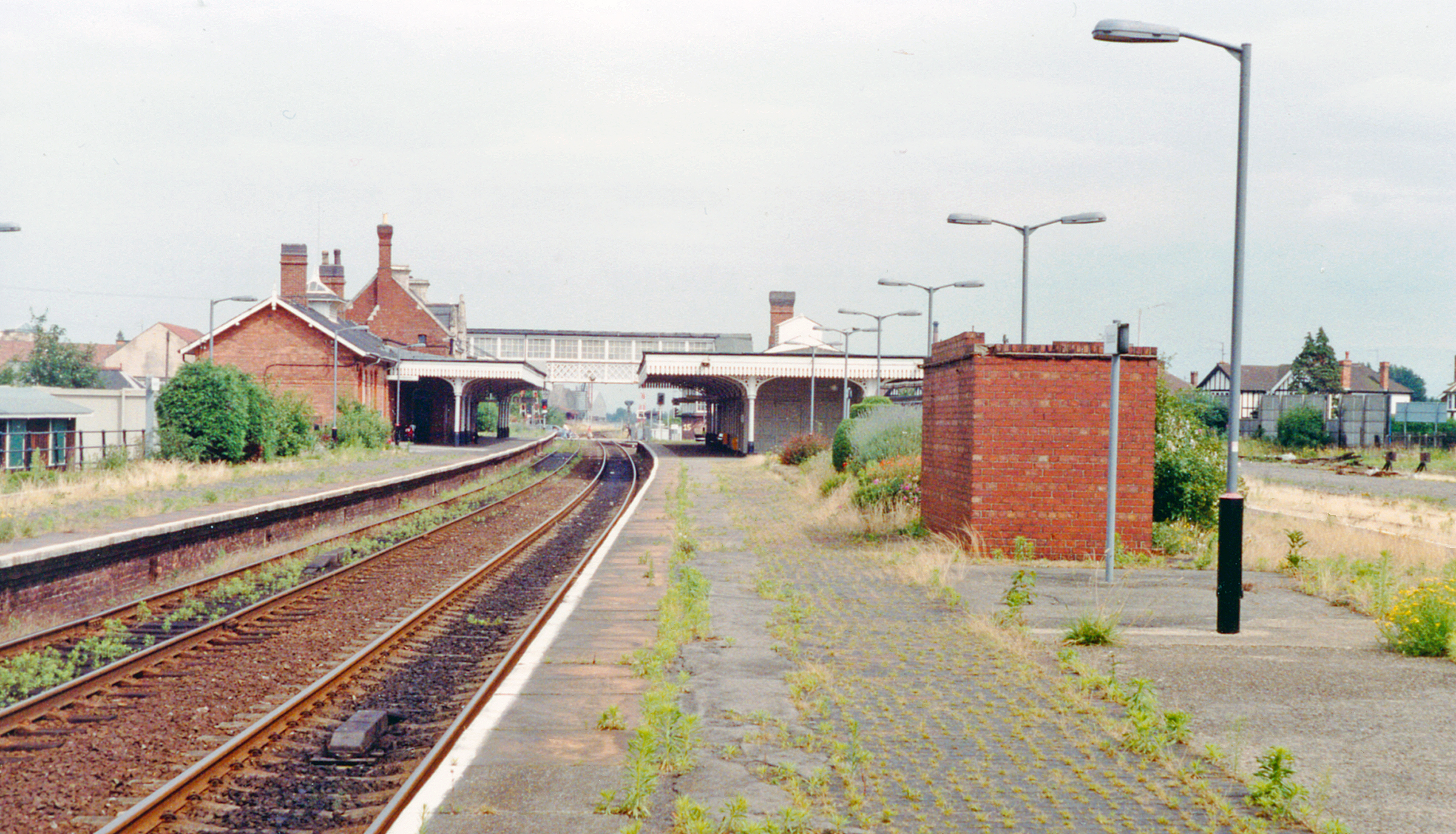 Sleaford Station, view eastward 1992. View eastward, towards Boston, Spalding etc., also formerly to Bourne: for details see TF0645 : Sleaford Station, 1992. In spite of the weeds, still quite an active station.